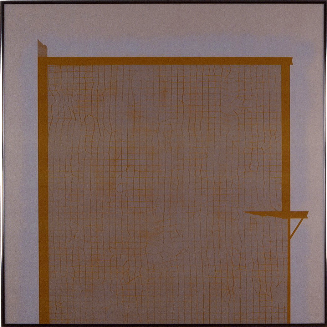 "Palais Royal V Stage 1" — by Robert Kehlmann (1982). Sandblasted glass. Hokkaido Museum of Modern Art collection, in Sapporo, Hokkaido, Japan.